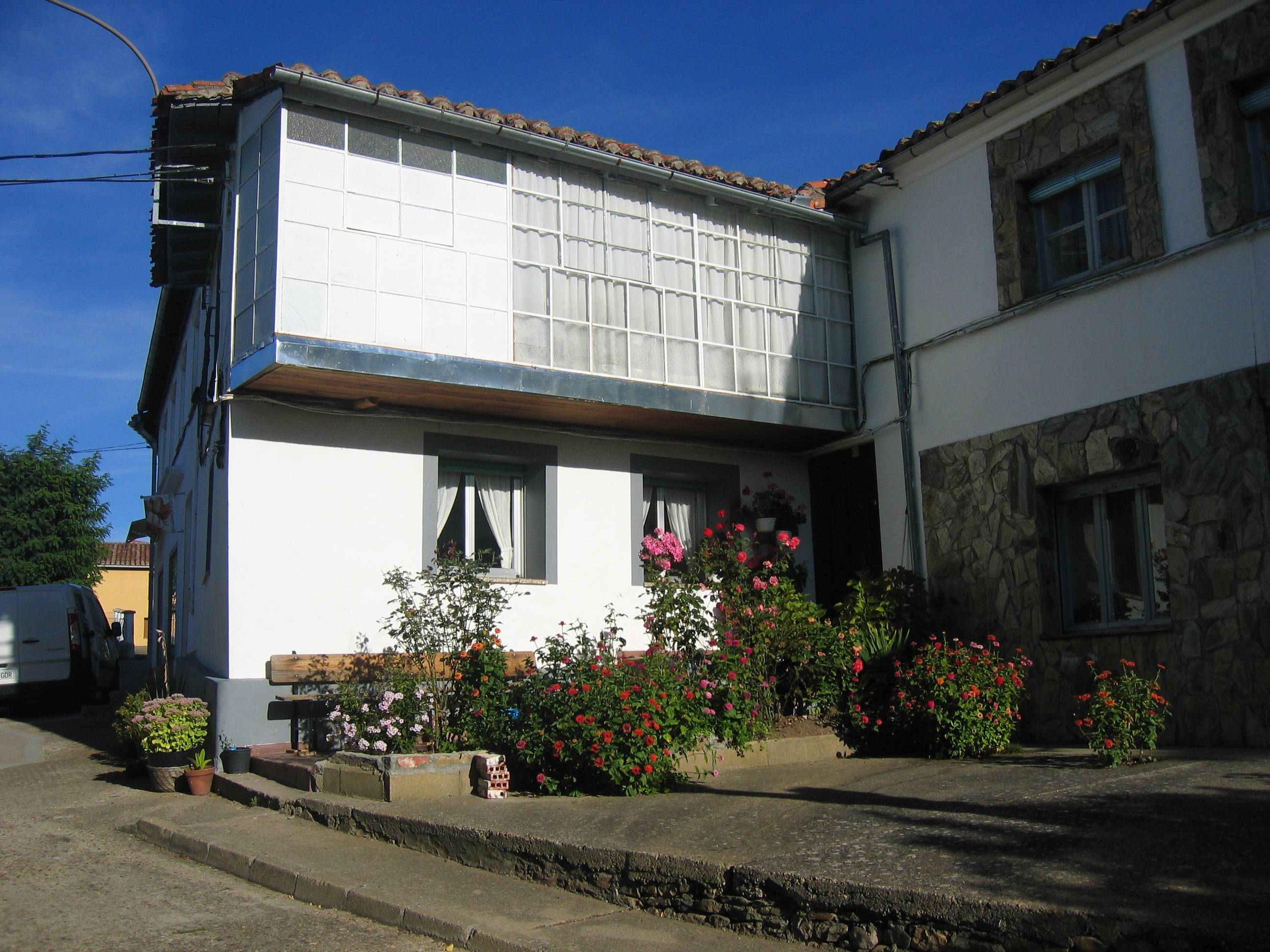 House in Riello (Leon), Spain